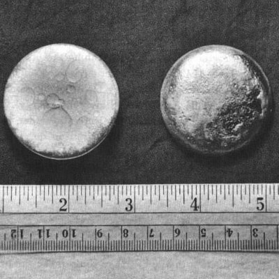 Plutonium, a silvery, very heavy and hard metal.